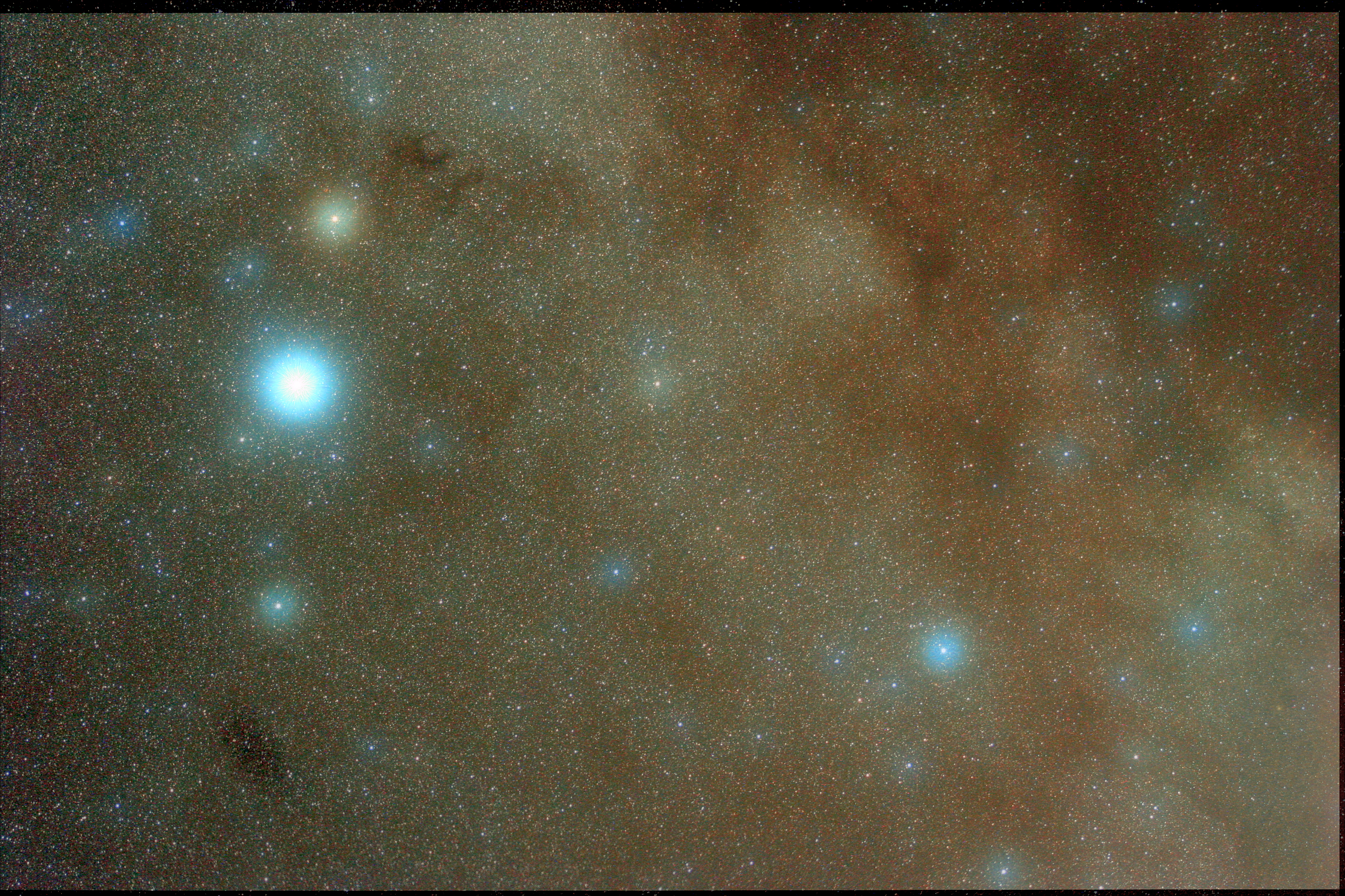 Altair (Alpha Aquilae) with diffusion filter.In this starfield showing many stars of Aquila constellation, the asterism α, β and γ Aquilae can be easily recognized on the left portion of the image.